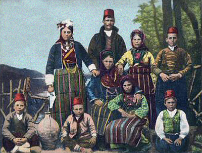 Old greek postcard depicting a family in Thessaloniki